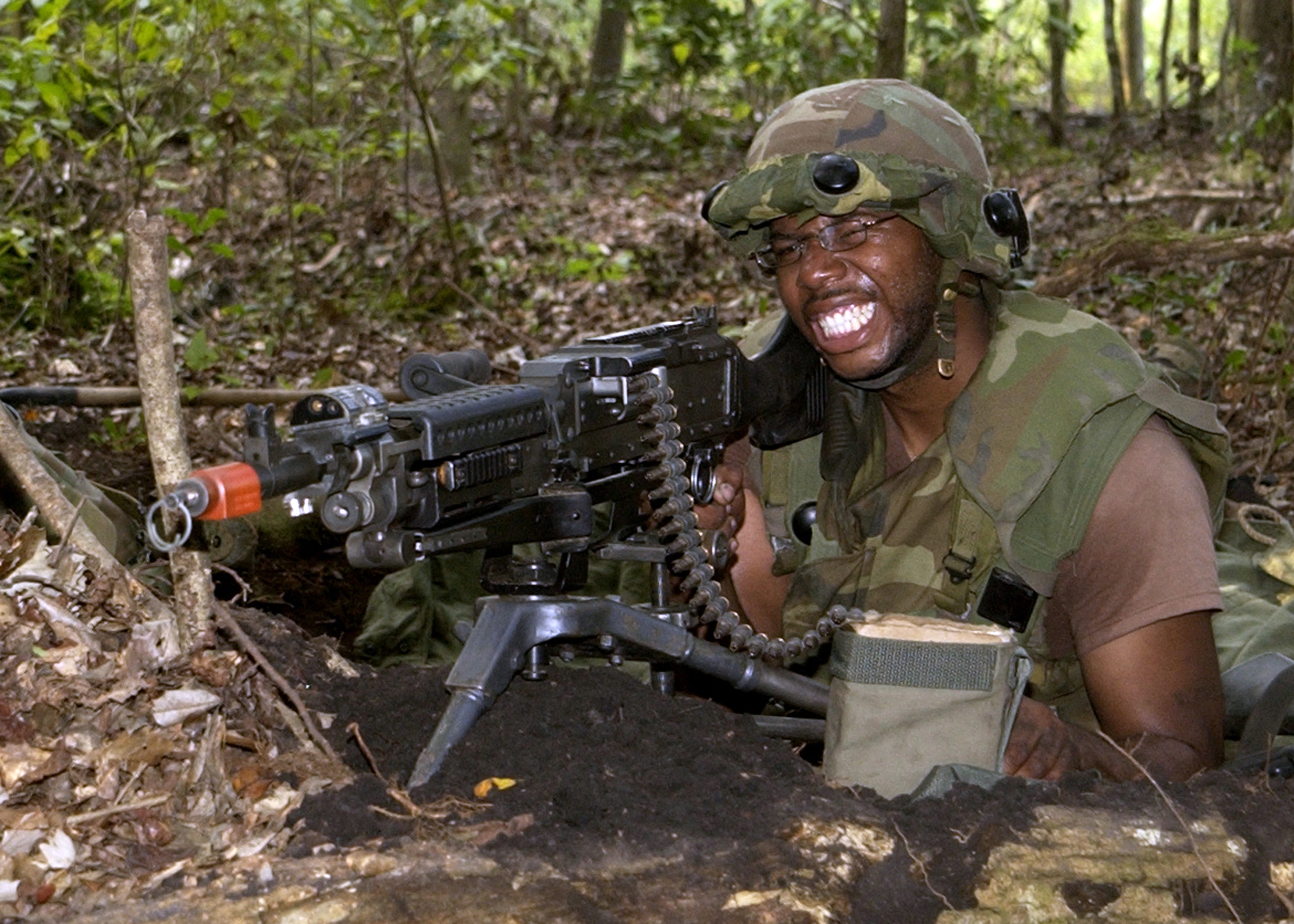 Camp Shelby, Miss. (Oct. 29, 2004) – Builder Constructionman Bobby R. Canton, assigned to Naval Mobile Construction Battalion One (NMCB-1), fires a M-240B machine gun outside the camp’s perimeter during field exercise Operation Gulf Mist at Camp Shelby, Miss. The M-240B is a 7.62mm, ground-mounted, gas-operated, crew-served machine gun that is replacing the M-60 series machine guns currently in use today. NMCB-1, based in Gulfport, Miss., is completing field training prior to deploying to Iraq. U.S. Navy photo by Photographer's Mate 1st Class Robert R. McRill (RELEASED)